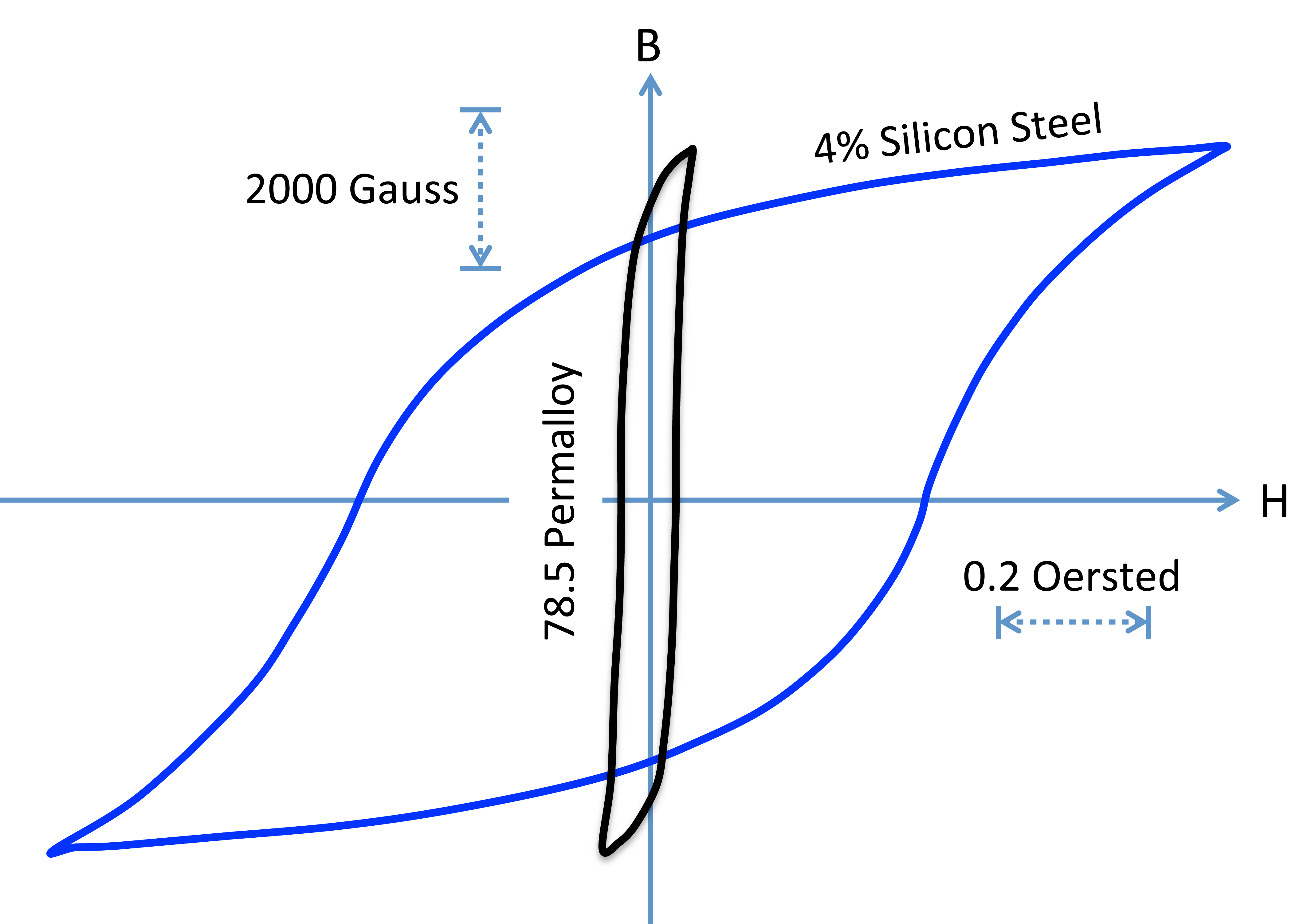 Hysteresis curves from hard and soft magnets, adapted from A. L. Albert, "Electrical Communication"